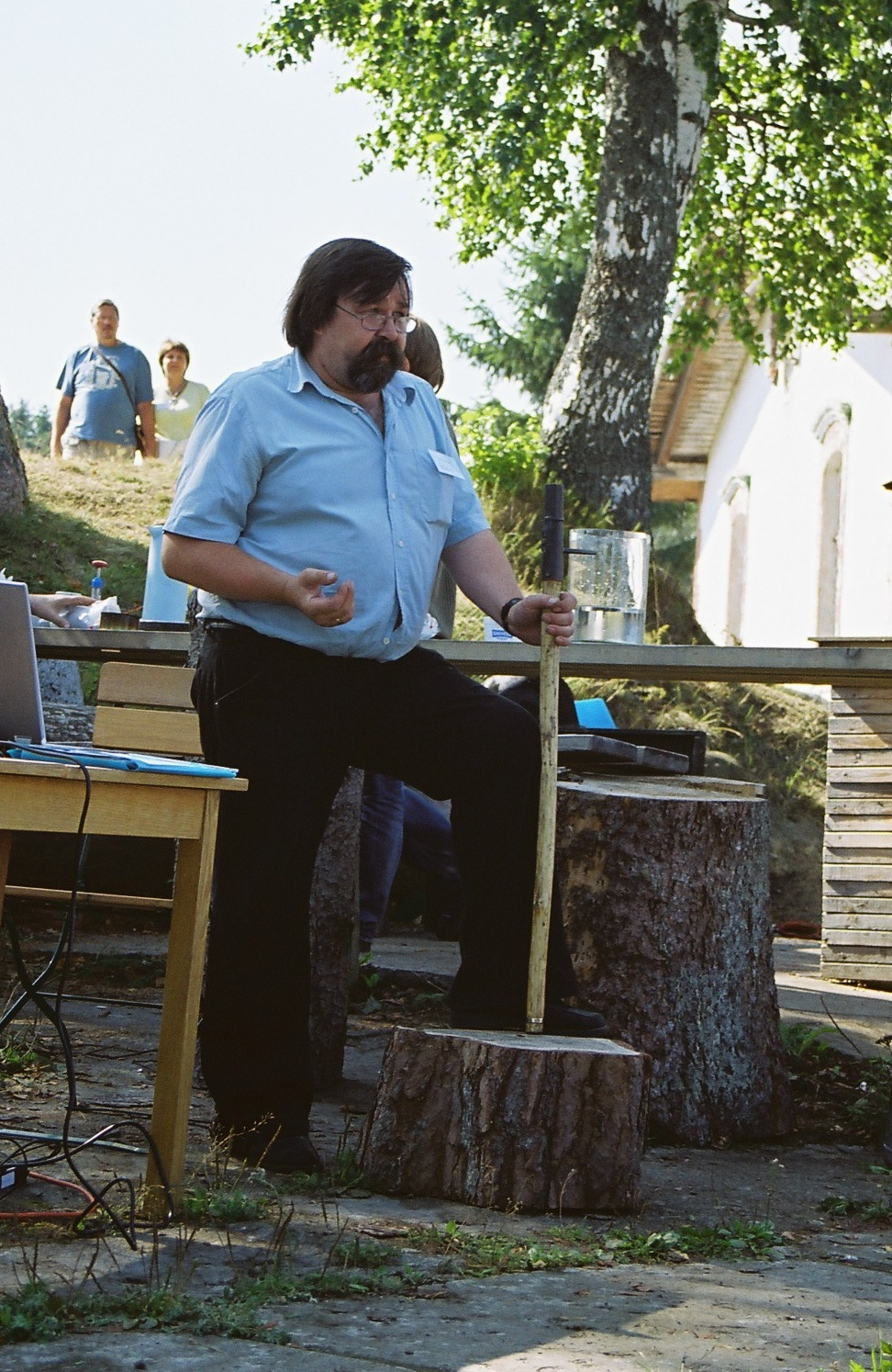 Estonian archaeologist Ain Mäselau with a copy of the "Otepää püssi" an early handgonne.